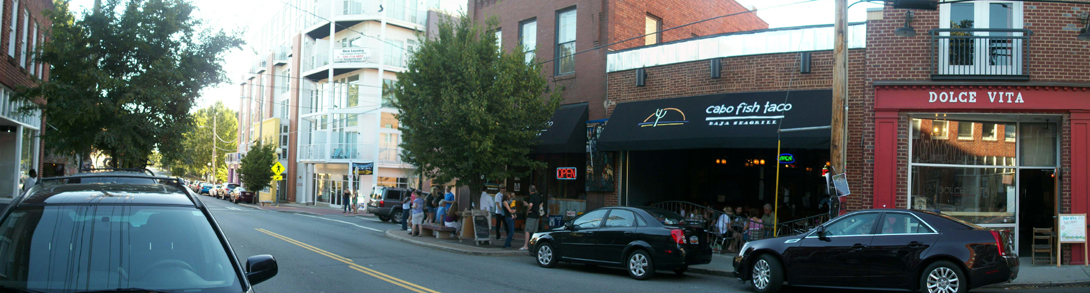 Downtown NoDa (North Charlotte) on a random Tuesday evening